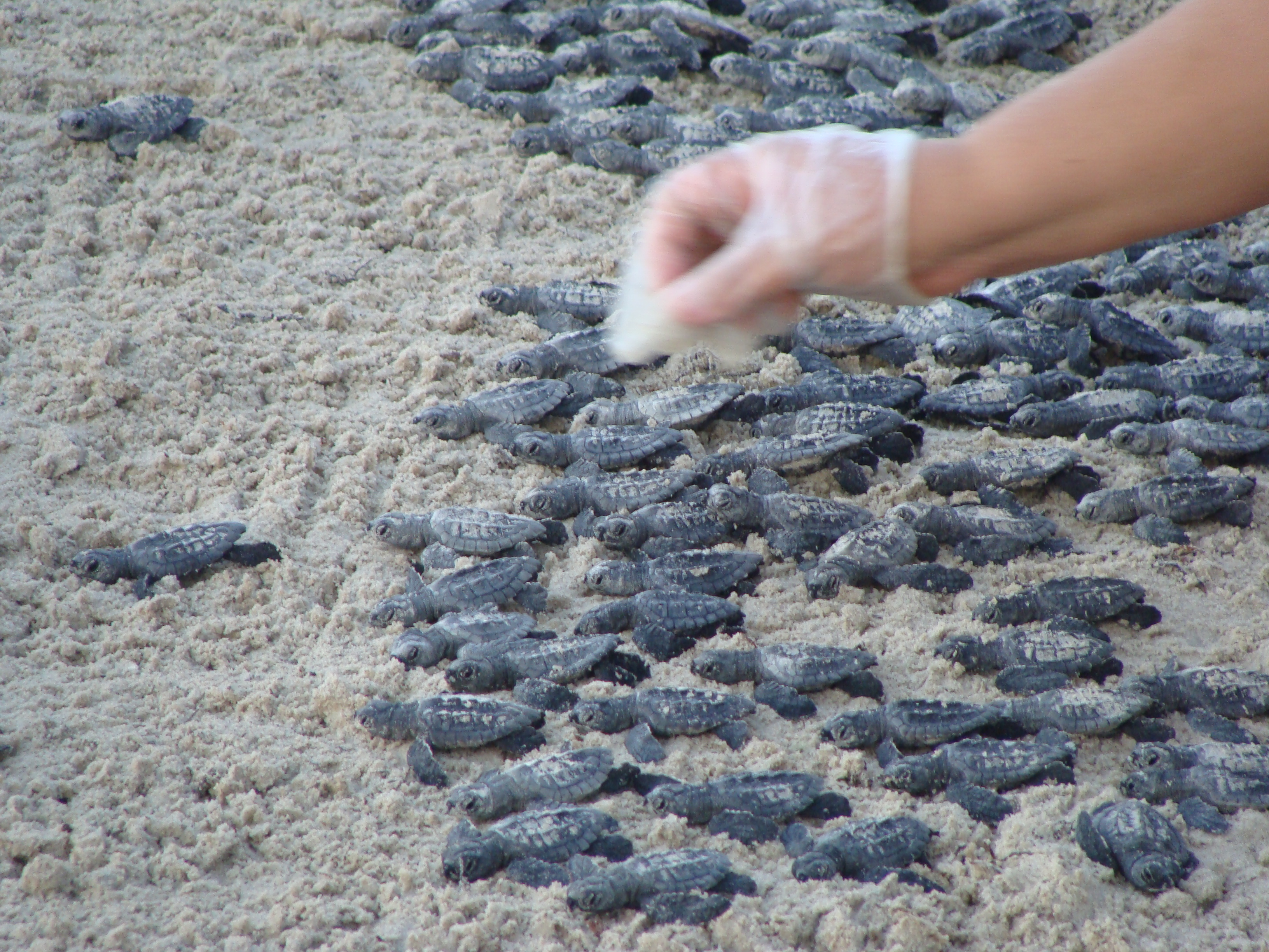 Kemp's Ridley is an extremely endangered Sea Turtle. The US National Park Service every year hatches these turtles and releases them to the sea after incubation to help increase their numbers. Seen here is an annual "Sea Turtle Hatchling Release" event at Padre Island National Seashore. more info about event here